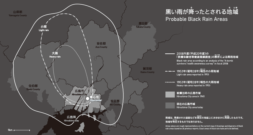 Probable black rain areas